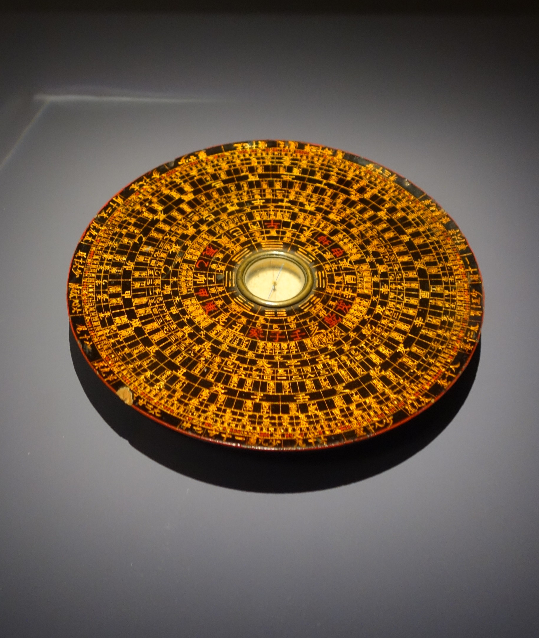 Fengshui compass, also known as Luopan. The compass is made to organise urbanism with fengshui principles. China, Qing dynasty, 19s century. Musée Guimet, Paris.